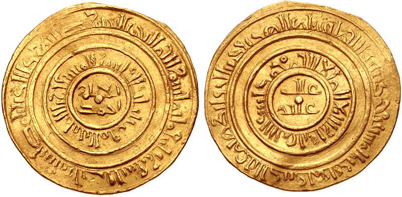 Original caption: ISLAMIC, Fatimids. al-Musta'li billah. AH 487-495 / AD 1094-1101. AV Dinar (24mm, 4.43 g, 11h). Misr (al-Fustat) mint. Dated AH 493 (AD 1099/1100). Nicol 2421; Album 725.2; ICV 843. Good VF, lightly toned, wavy flan.